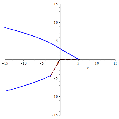 Example of generalized conic in the sense in which the term was used by Tom M. Apostol and Mamikon A. Mnatsakanian in their study of curves drawn on the surfaces of right circular cones. Parameter values: r_0=5, lambda=1, k=1.5